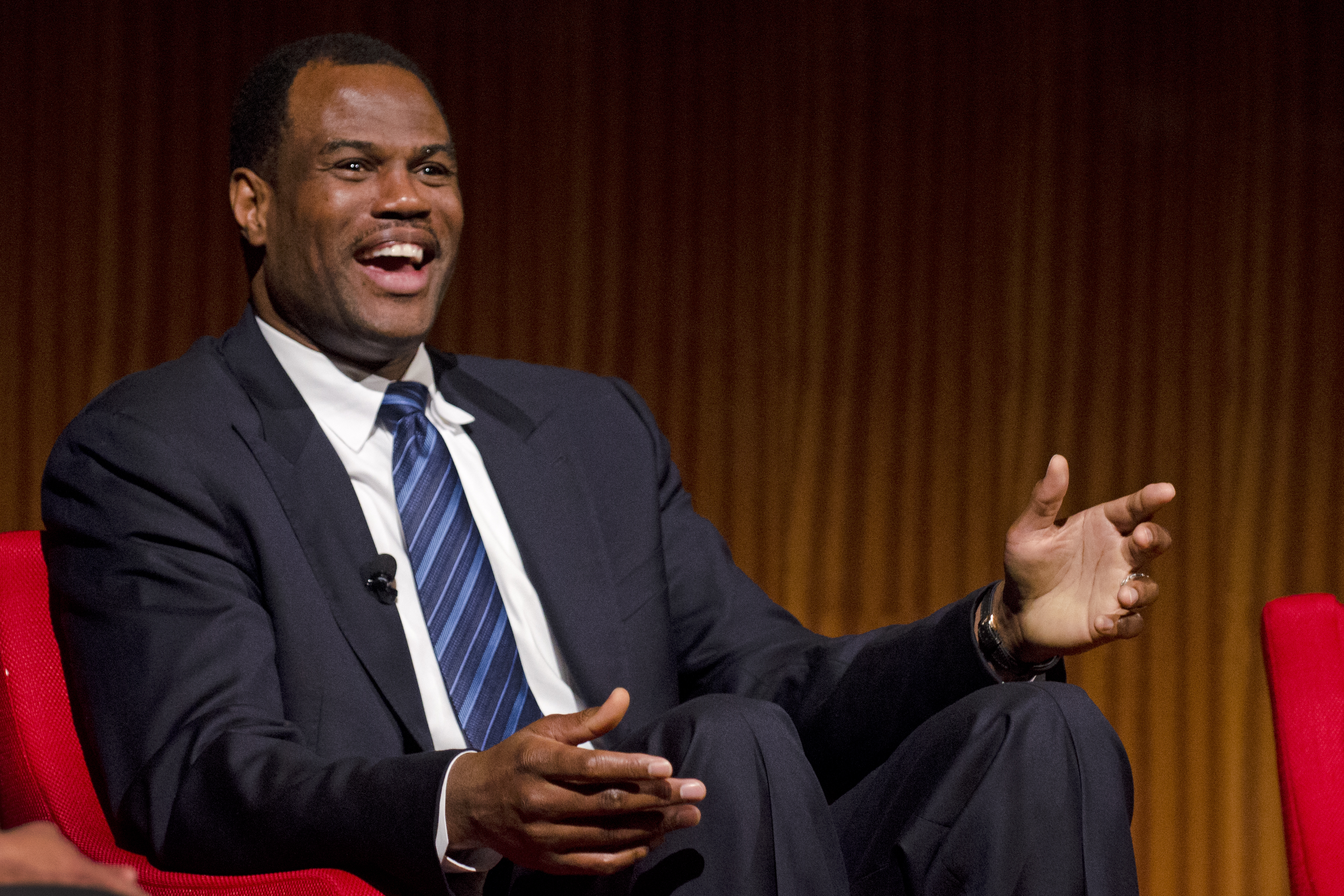 AUSTIN, APRIL 9 - David Robinson, member of the Basketball Hall of Fame, and honored philanthropist, spoke at the Civil Rights Summit. Photo by Marsha Miller.